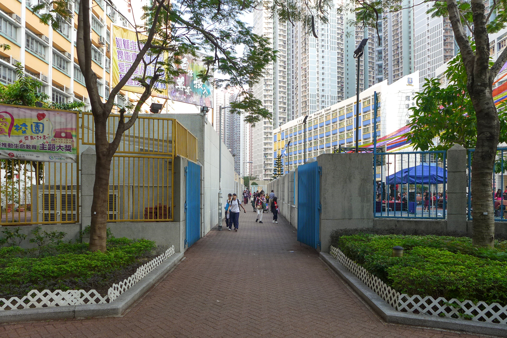 Tin Fu Court Access to School